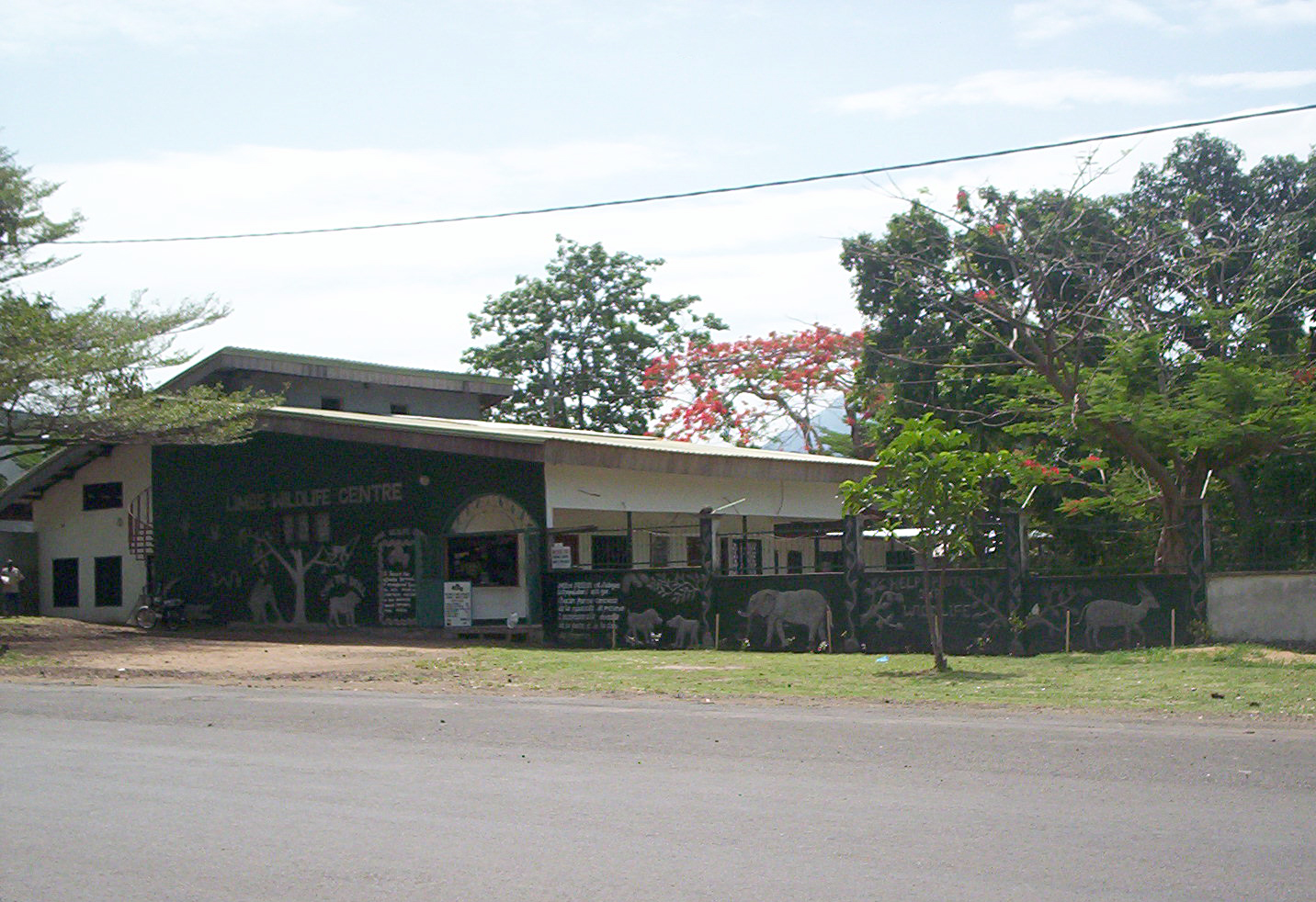 Limbe Wildlife Centre, Limbe, Southwest Province, Cameroon